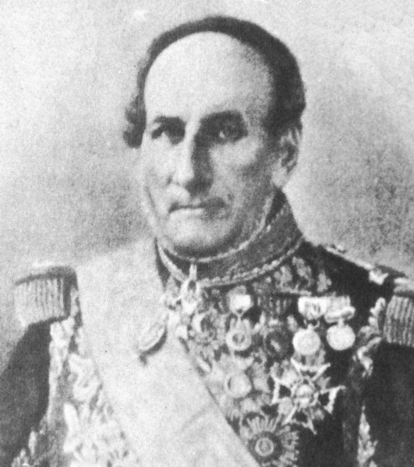 Vice-Amiral_Charner